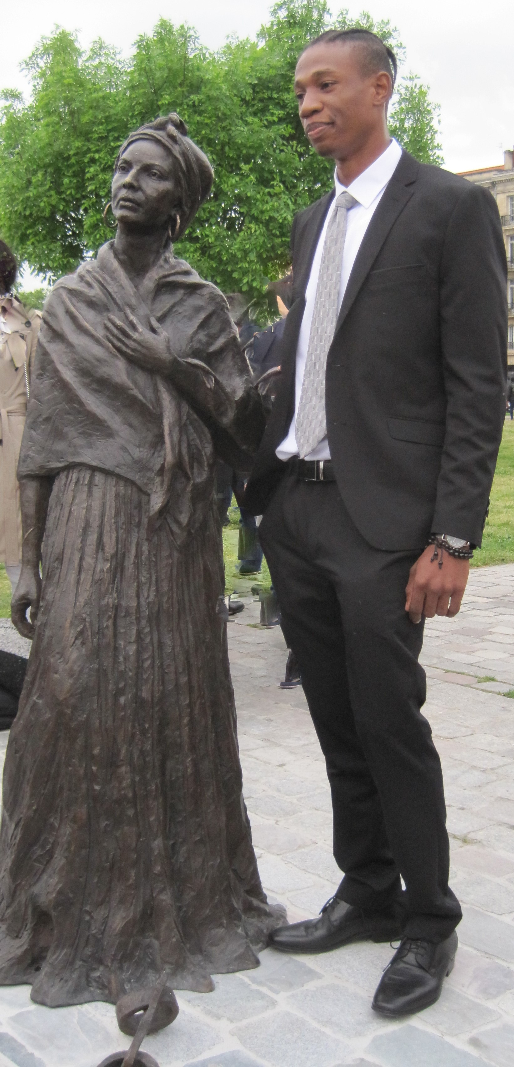 Statue of Modeste Testas, african slave deported in the 18th century by two Bordeaux traders and plantation owners. Located Quai des Chartrons, at Bordeaux, this work of the haitian sculptor Woodly Caymitte Filipo was inaugurated in 2019.